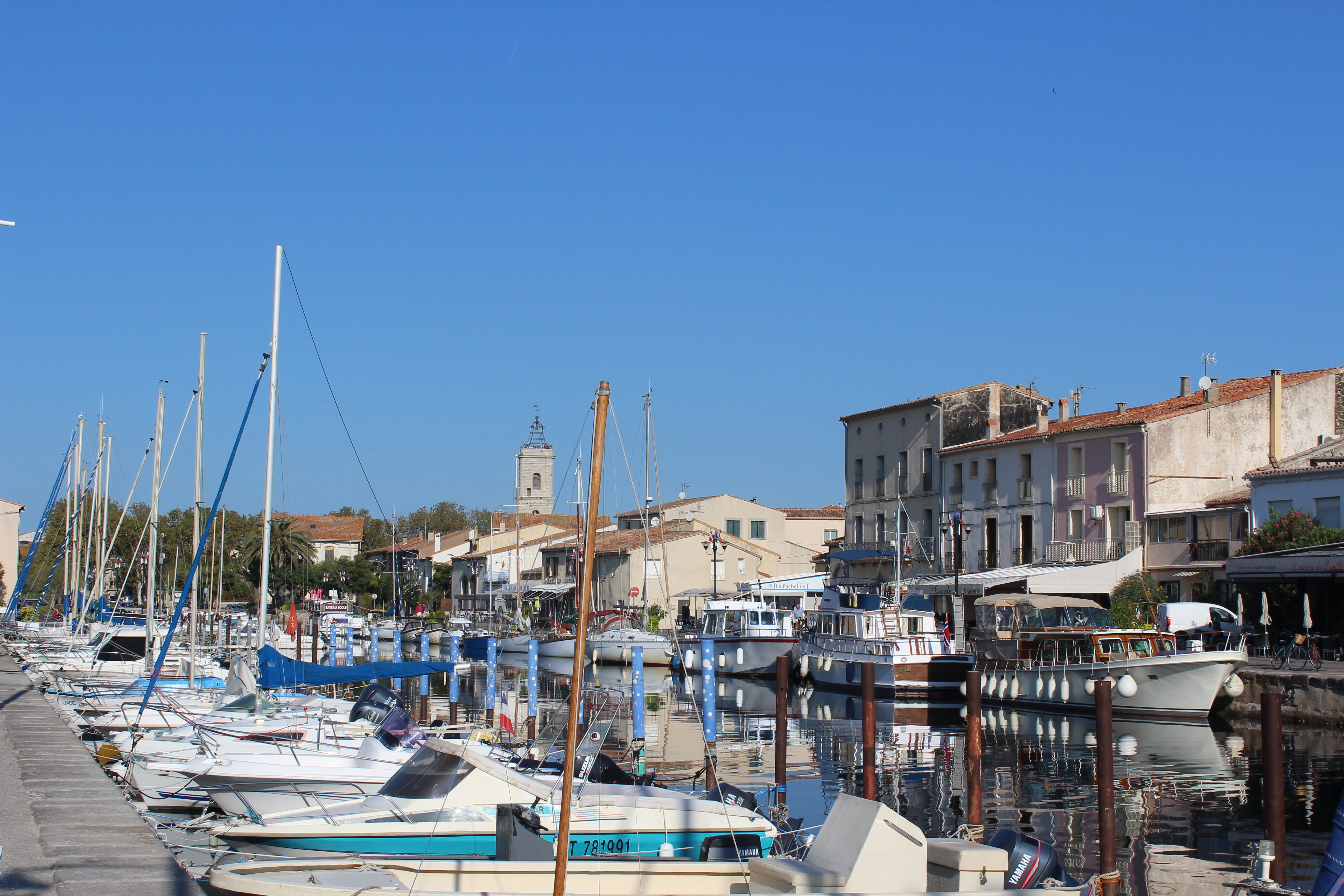 Marseillan Port looking landwards